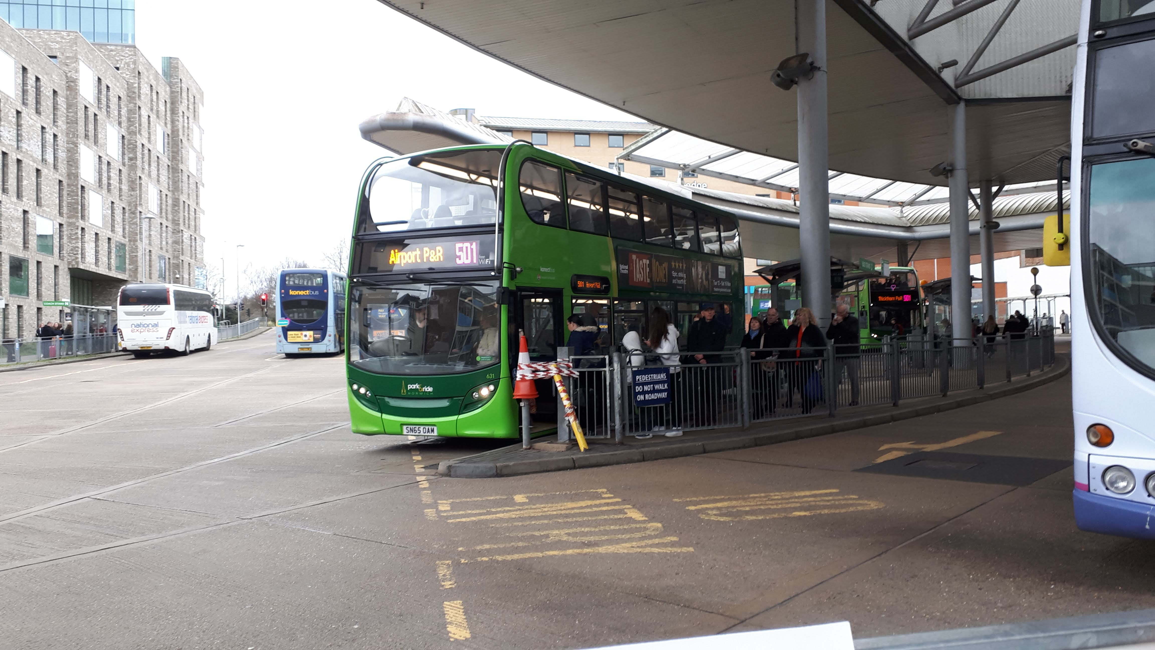 An Enviro 400 in Norwich Bus Station operating route 501.